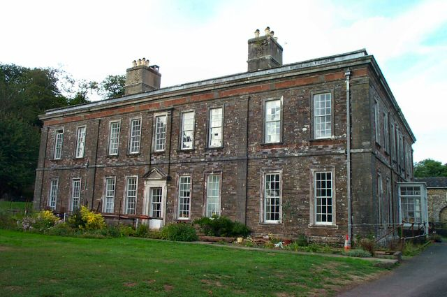 Bowden House - Totnes. A splendid Georgian house